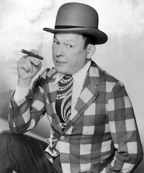 Publicity photo of Fred Allen for the premiere of the radio program Texaco Star Theater.